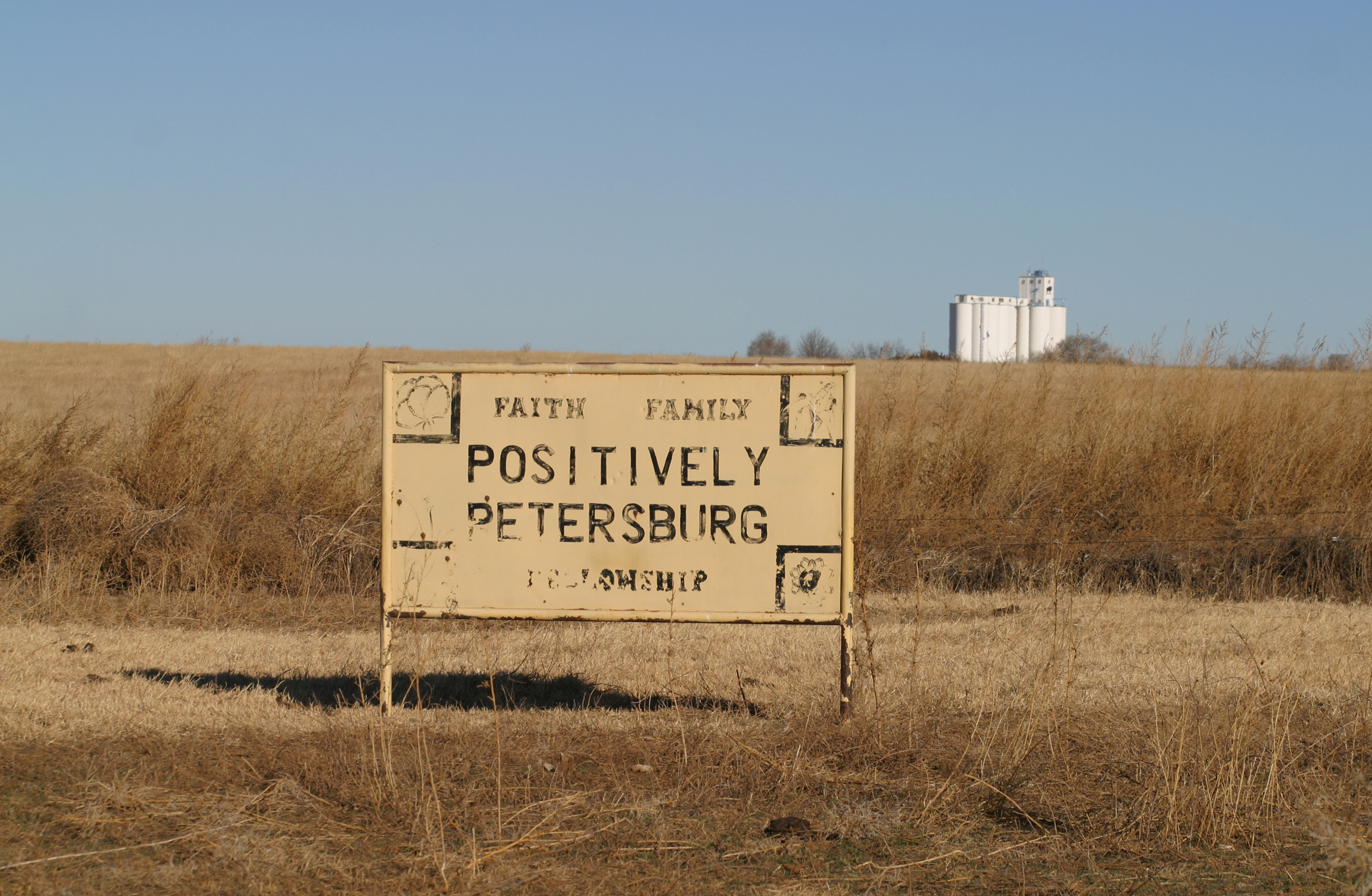 Welcome sign, Petersburg, Texas.